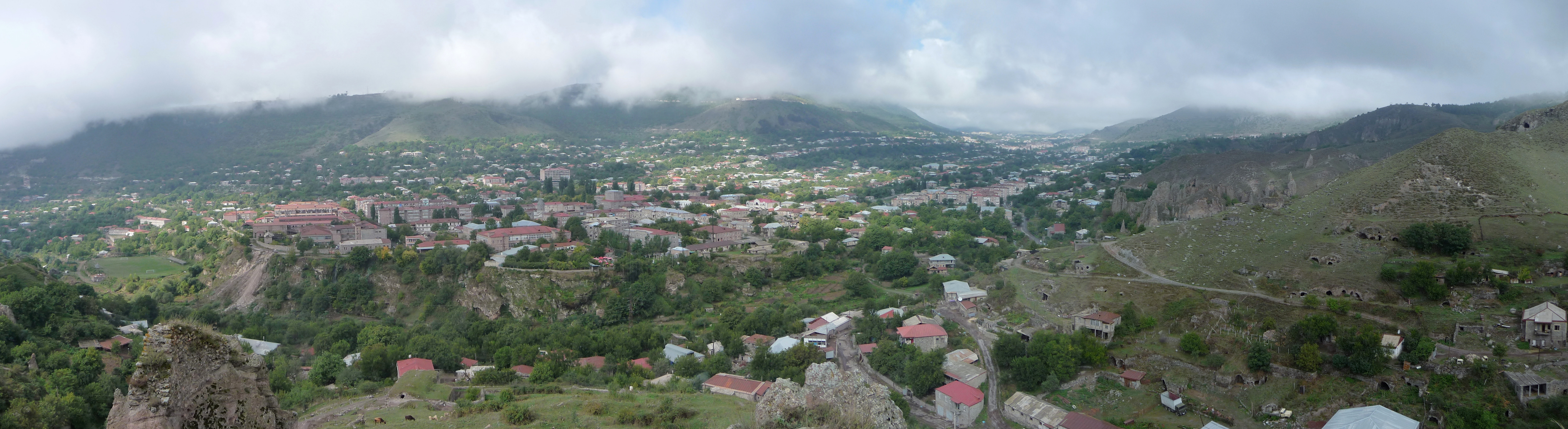 Panorama of the city of Goris (Syunik, Armenia).